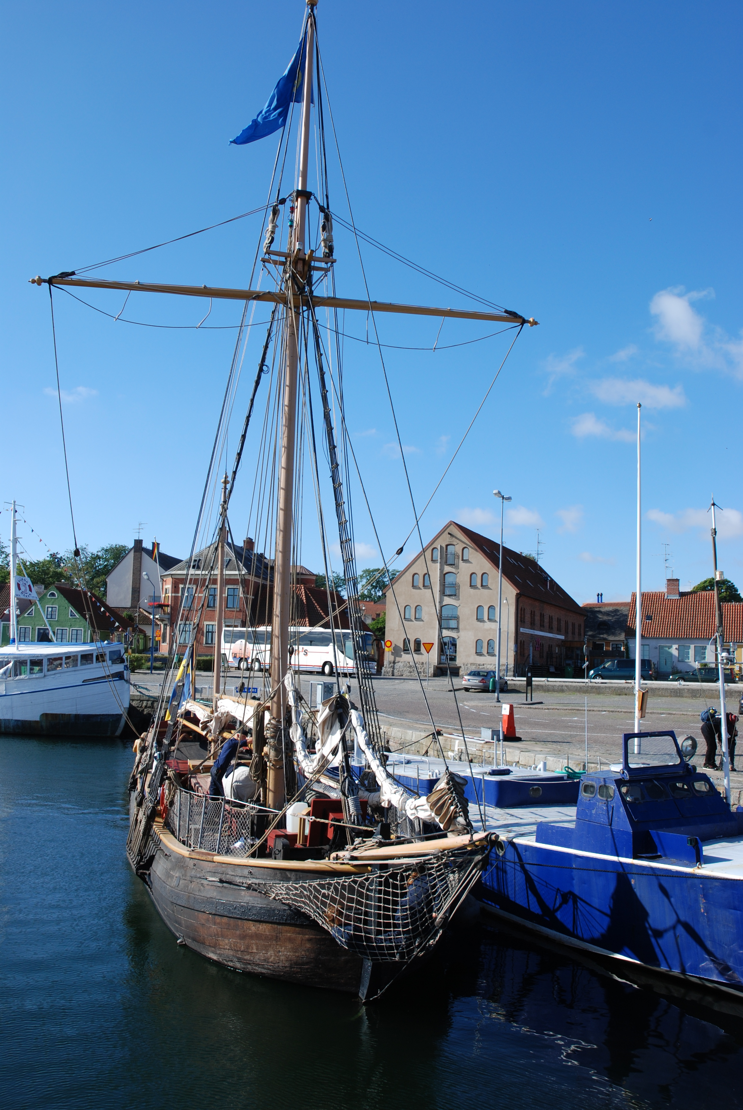 Hiorten, a full scale replica of the Swedish late 17th Century post schooner Hiorten.